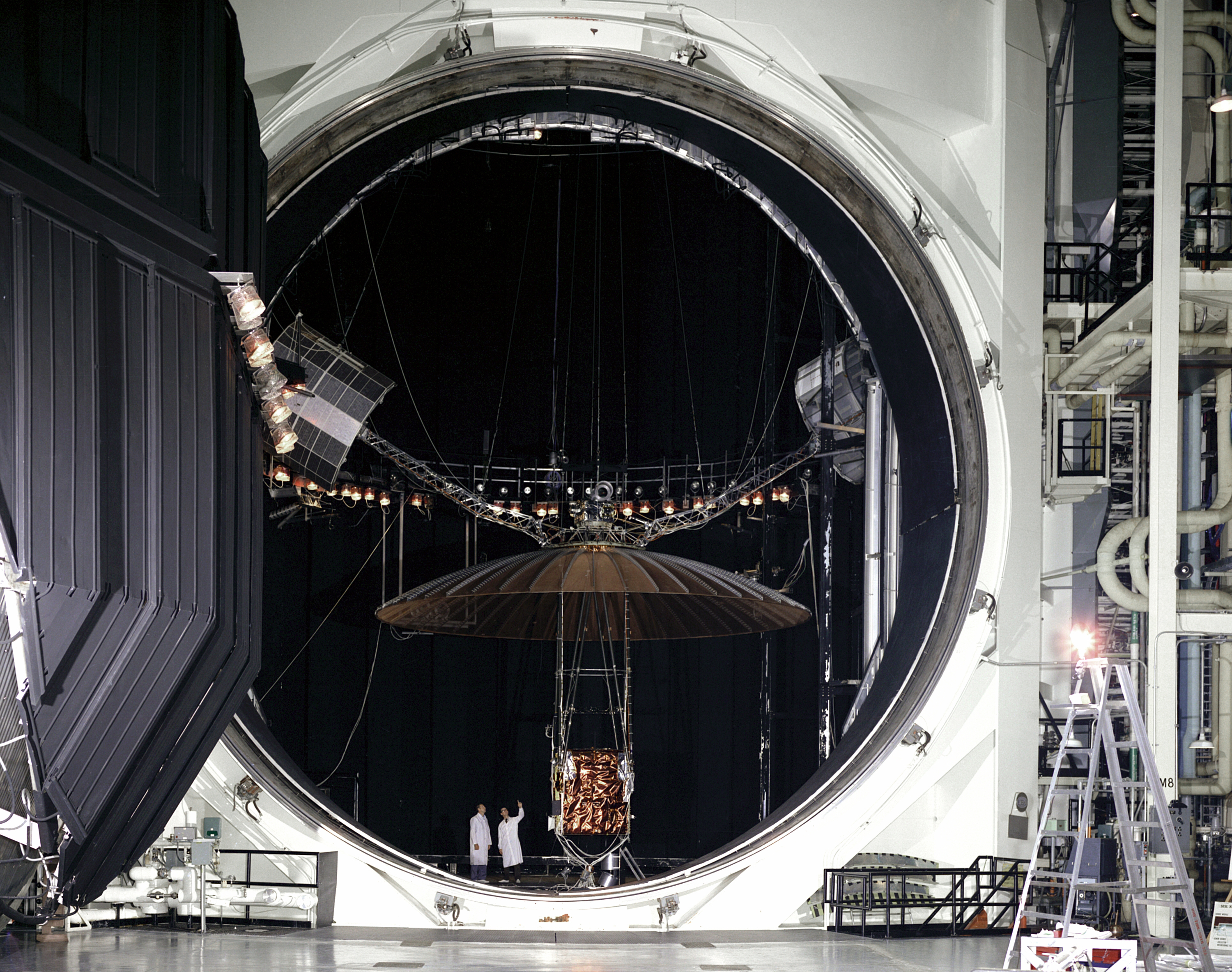 A test model of the Applications Technology Satellite (ATS) is seen during checkout activity in Chamber A of the Space Environment Simulation Laboratory at the Johnson Space Center (JSC) to see if the satellite's 30-feet diameter umbrella-shaped antenna would unfold properly in a space vacuum. The antenna is in an unfolded (deployed) position in this picture. For the test, the 65-feet diameter by 120 feet high vacuum chamber in Building 32 was pumped down to an equivalent altitude of 255,000 feet (48 miles). The test model satellite is hung by cables from the chamber's dome. Engineers from the Goddard Space Flight Center (GSFC) not only wanted to test the antenna mechanism itself, but the efforts of the unfolding action on the whole satellite. For the test, the 54-feet span solar array "paddles" for generating the satellite's electrical power were spread in the orbit flight position, while the parabolic antenna was folded into a donut-shaped package beneath the solar ray booms. The 3,000 pound ATS-F was launched in the spring of 1974 atop a Titan IIIC launch vehicle into a 22,000-mile high synchronous orbit, first above the United States and later above India. ATS spacecraft prime contractor to the GSFC, Greenbelt, Maryland, was Fairchild Industries, Germantown, Maryland. This view is from outside the chamber looking through the huge doorway.